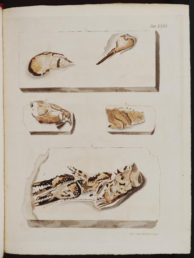 Illustrations from the book The Fossils of the South Downs, engraved by Mary Ann Mantell from sketches by Gideon Mantell. The book describes geological formations and fossils found in the South Downs of Sussex, England. Shelfmark: OUM: 1 d. 67. This is Plate XXXI. Caption from book: Fig. 1: On the left of this specimen is a portion of the thorax of Astachus Leachii, and on the right, a claw deprived of one of its pincers. Fig. 2: Cast of the thorax of A. Leachii Fig. 3: The thorax of the same, flattened by compression. Fig. 4: The most perfect specimen of Astachus Leachii hitherto discovered